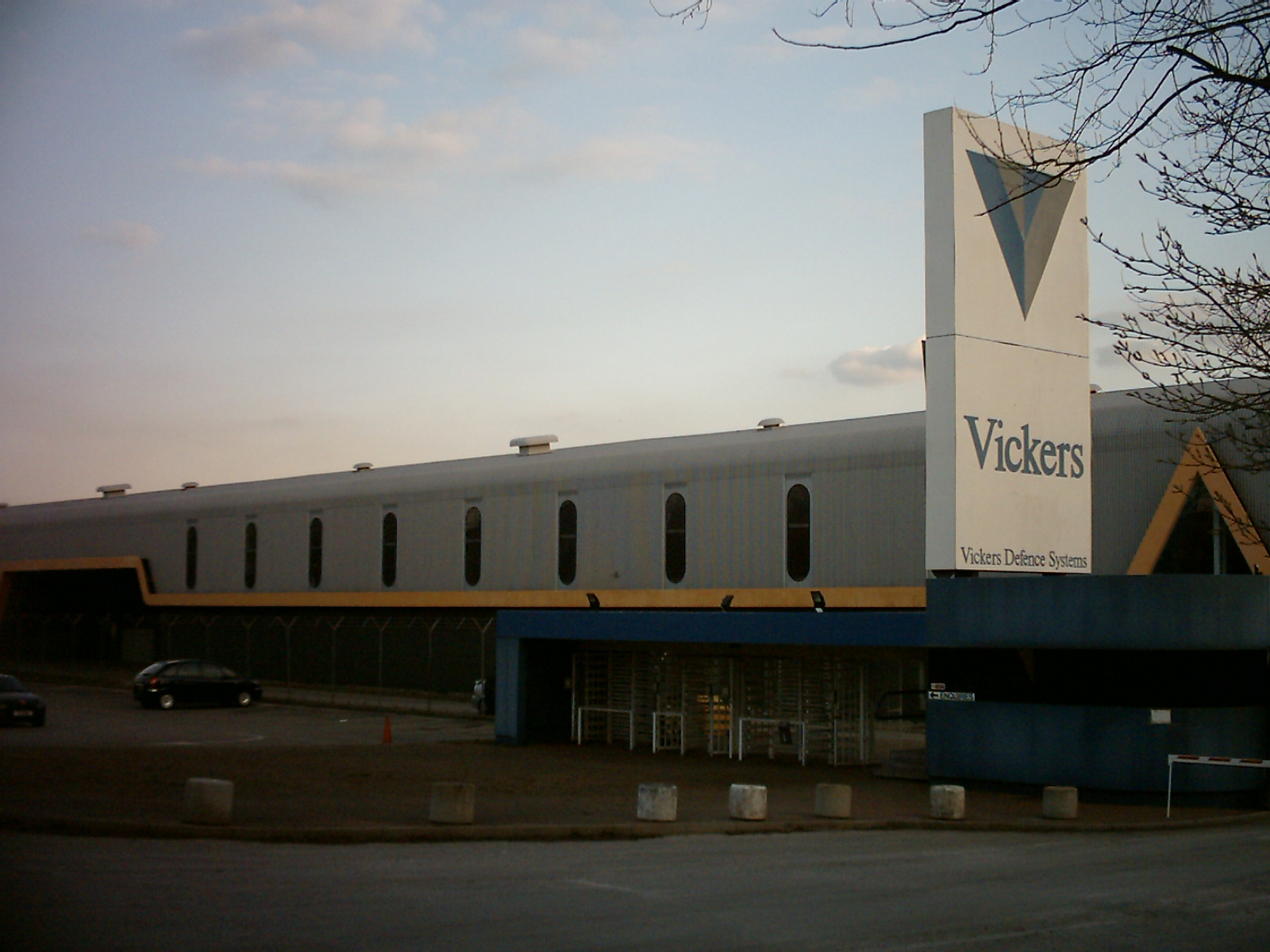 The Vickers Works, formerly the Barnbow ROF on Manston Lane, Cross Gates, Leeds, West Yorkshire. The photograph was taken in the late afternoon of the 1st April 2009.